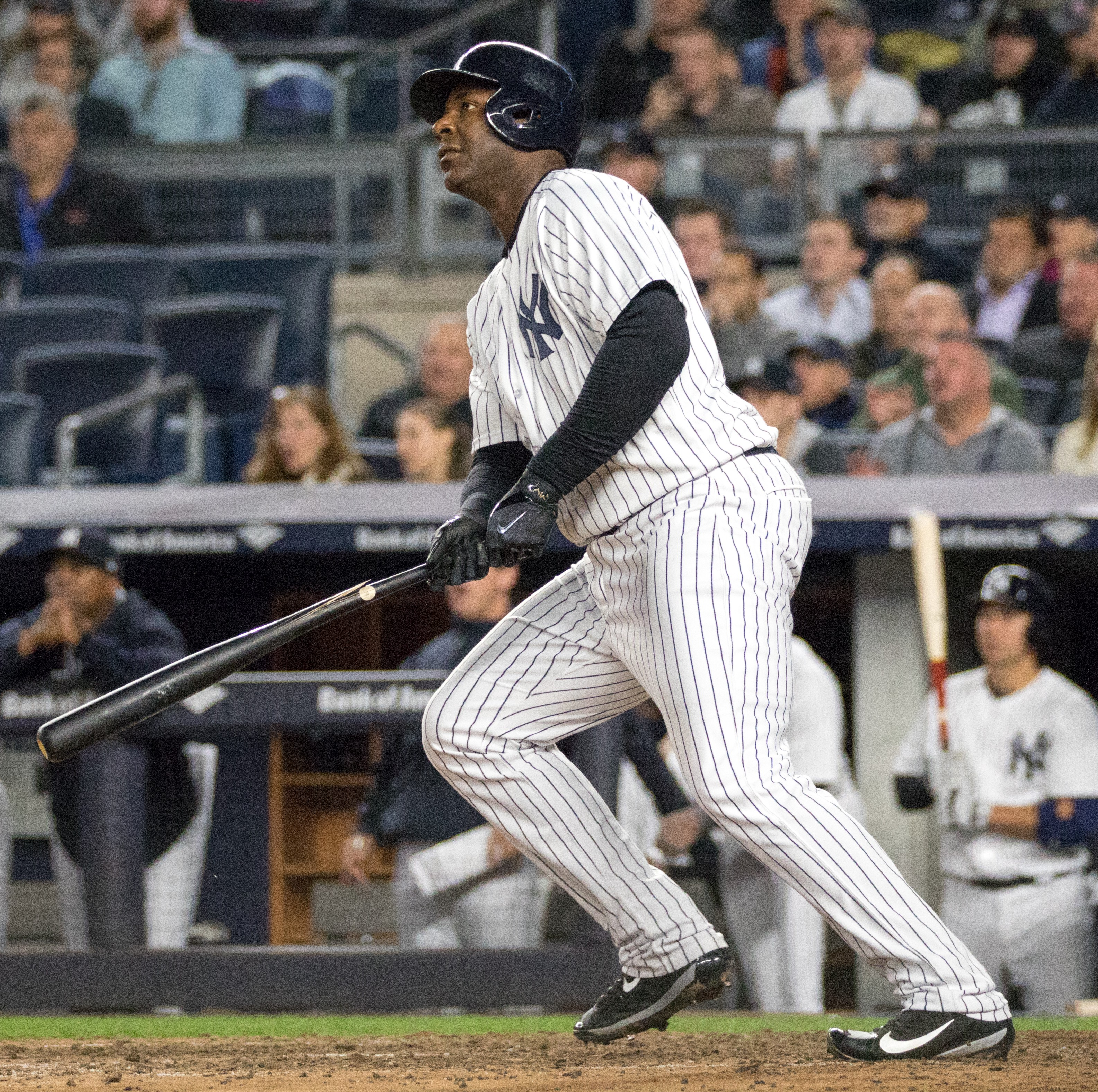 Yankees first baseman Chris Carter hits a go-ahead RBI single during the seventh inning.